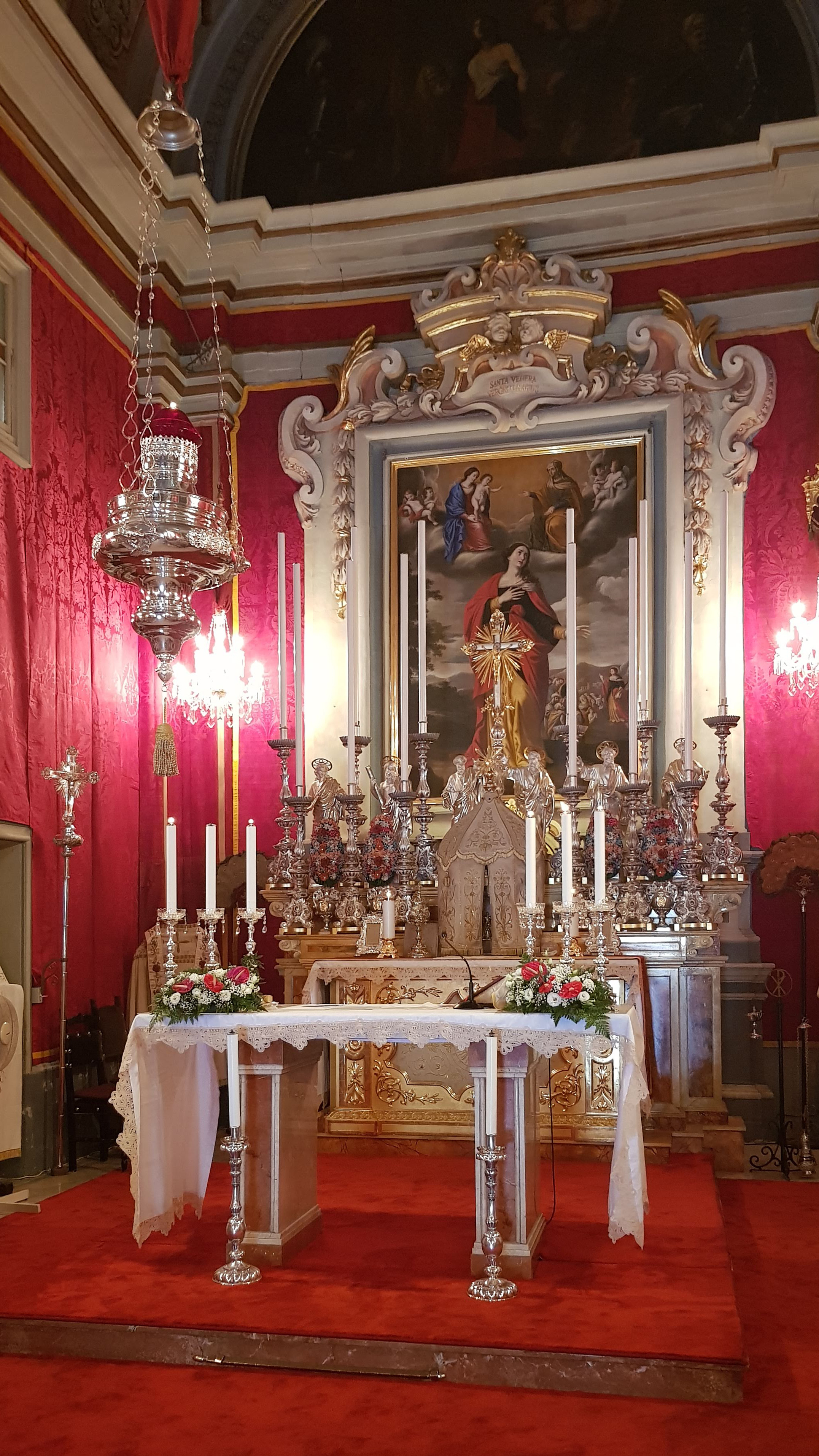 Altar inside the Old Parish Church of St. Venera in St. Venera Square, Santa Venera, Malta This media is about Maltese cultural property with inventory number 00199.